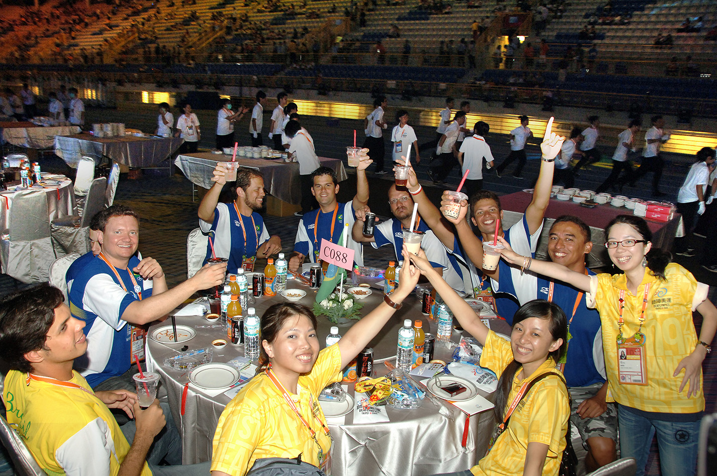 The first Pearl Milk Tea which was chosen as the best by the media for 6 consecutive years.The only pearl milk tea at the Taipei Deaflmpics, which was the first time it was held in Taiwan, it is not just Taiwan’s glory, it is also Share Tea’s glory.